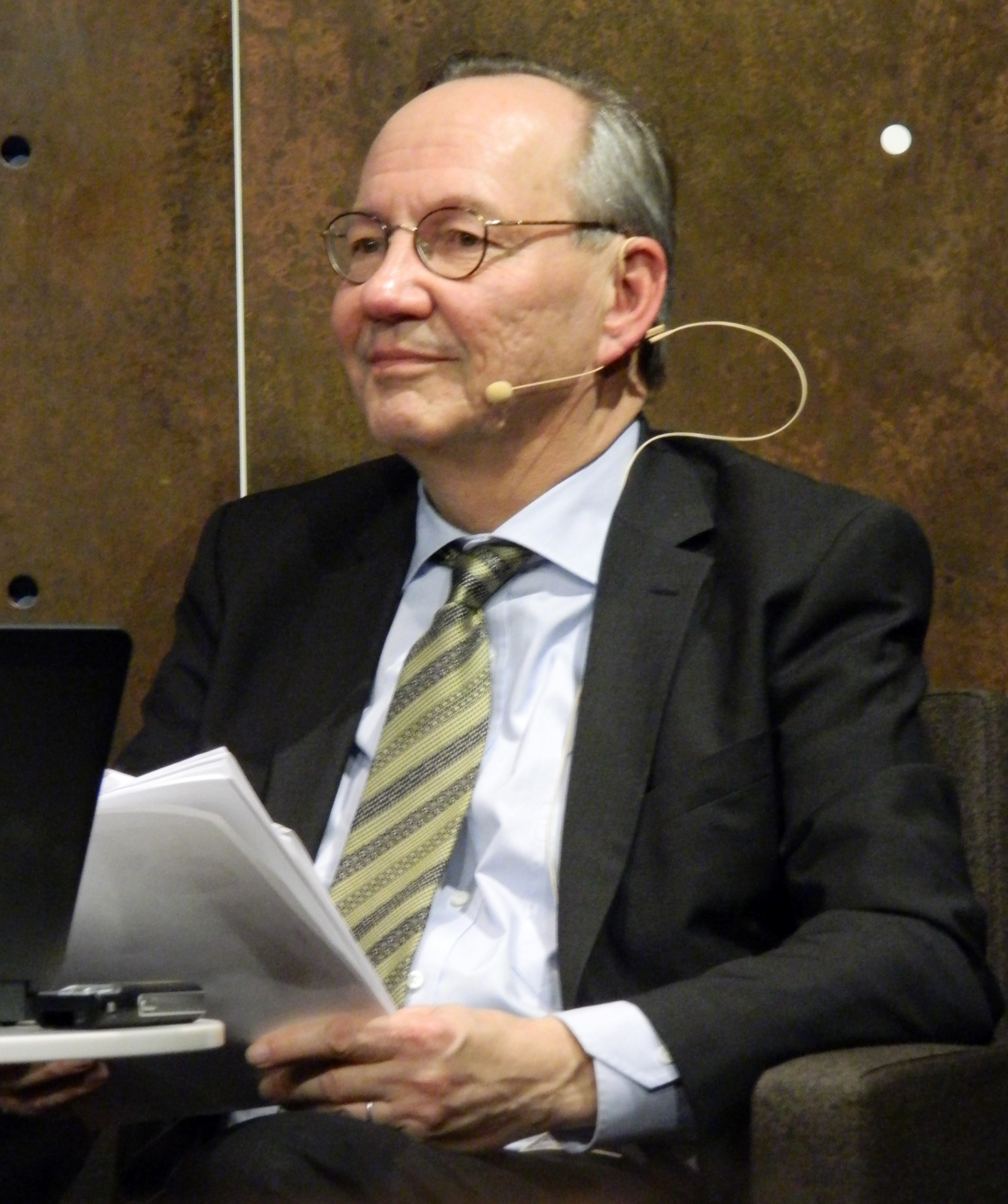 Juha Tarkka at Bank of Finland seminar, 2016